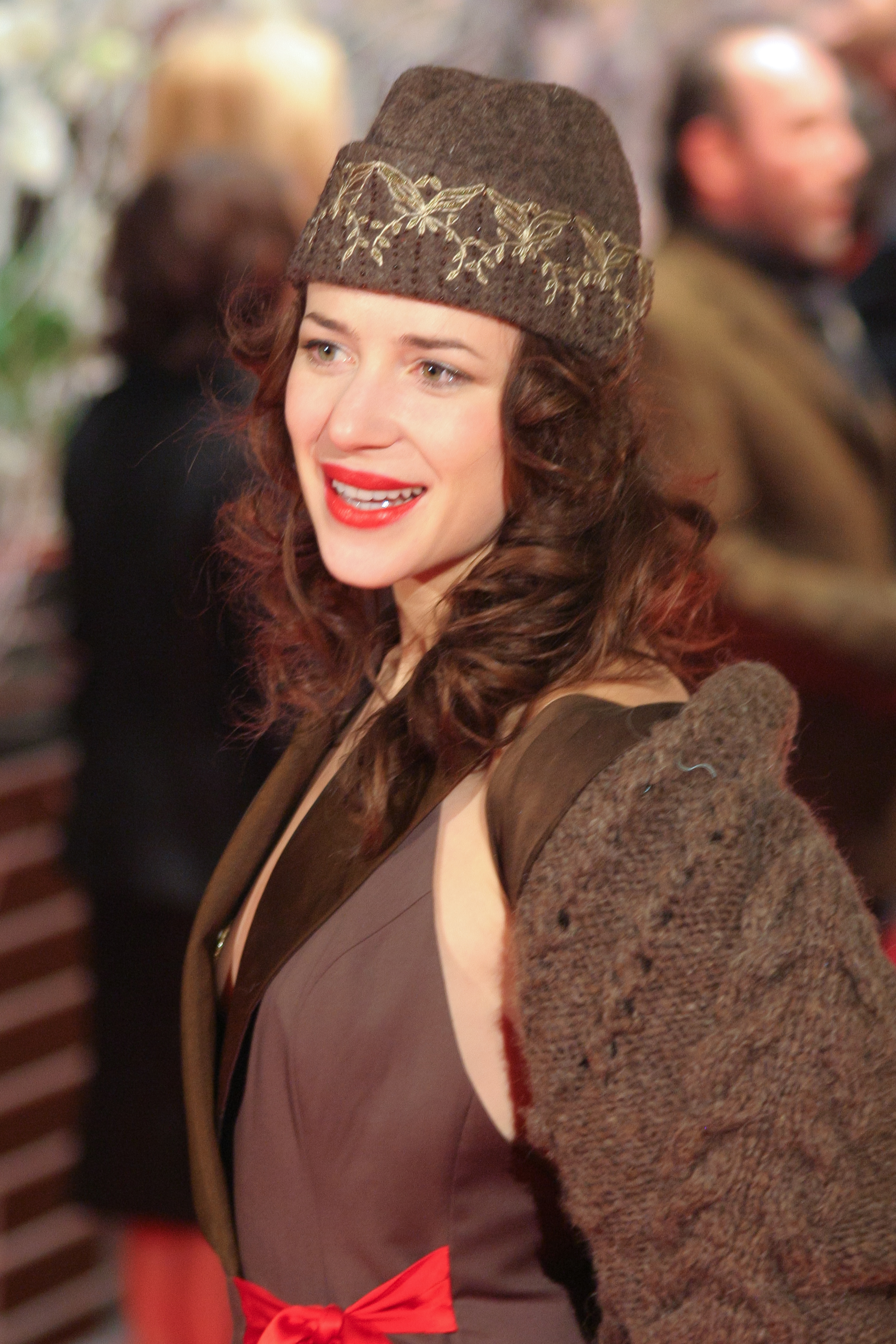 Actress Julia Malik at the premiere of The Counterfeiters, Berlinale 2007